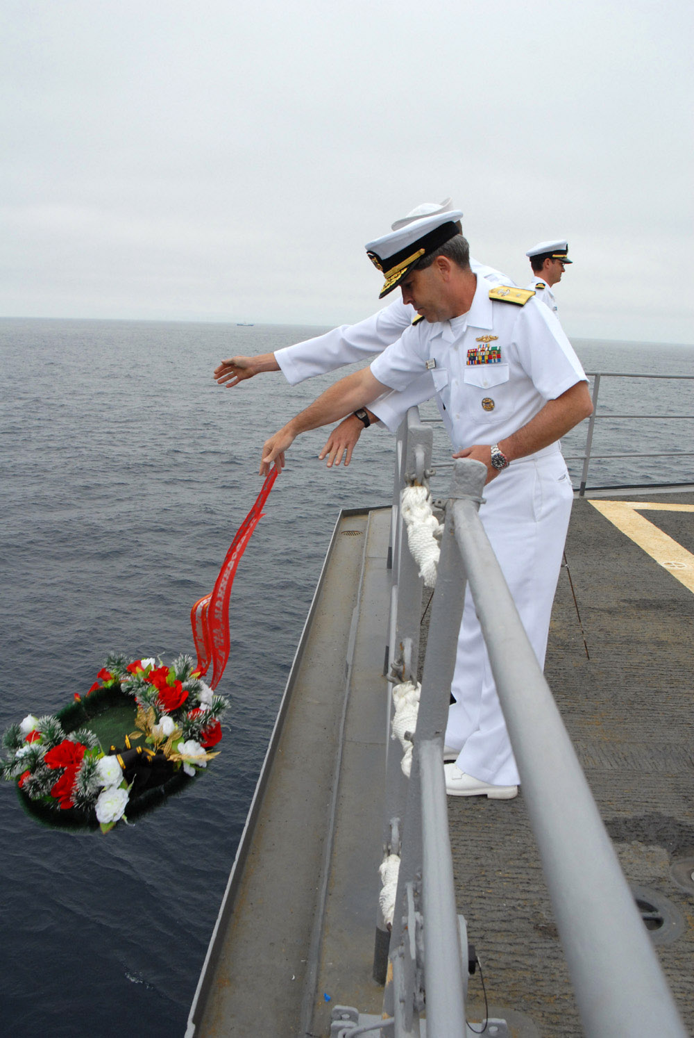 LA PEROUSE STRAIT (July 8, 2007) - Rear Adm. Douglas McAneny, Commander Submarine Squadron 7, helps lay a wreath into the ocean in remembrance of the Sailors aboard USS Wahoo (SS 238) from aboard submarine tender USS Frank Cable (AS 40). The submarine sunk in October 1943 and was found in June 2006 by a Russian diving team. U.S. Navy photo by